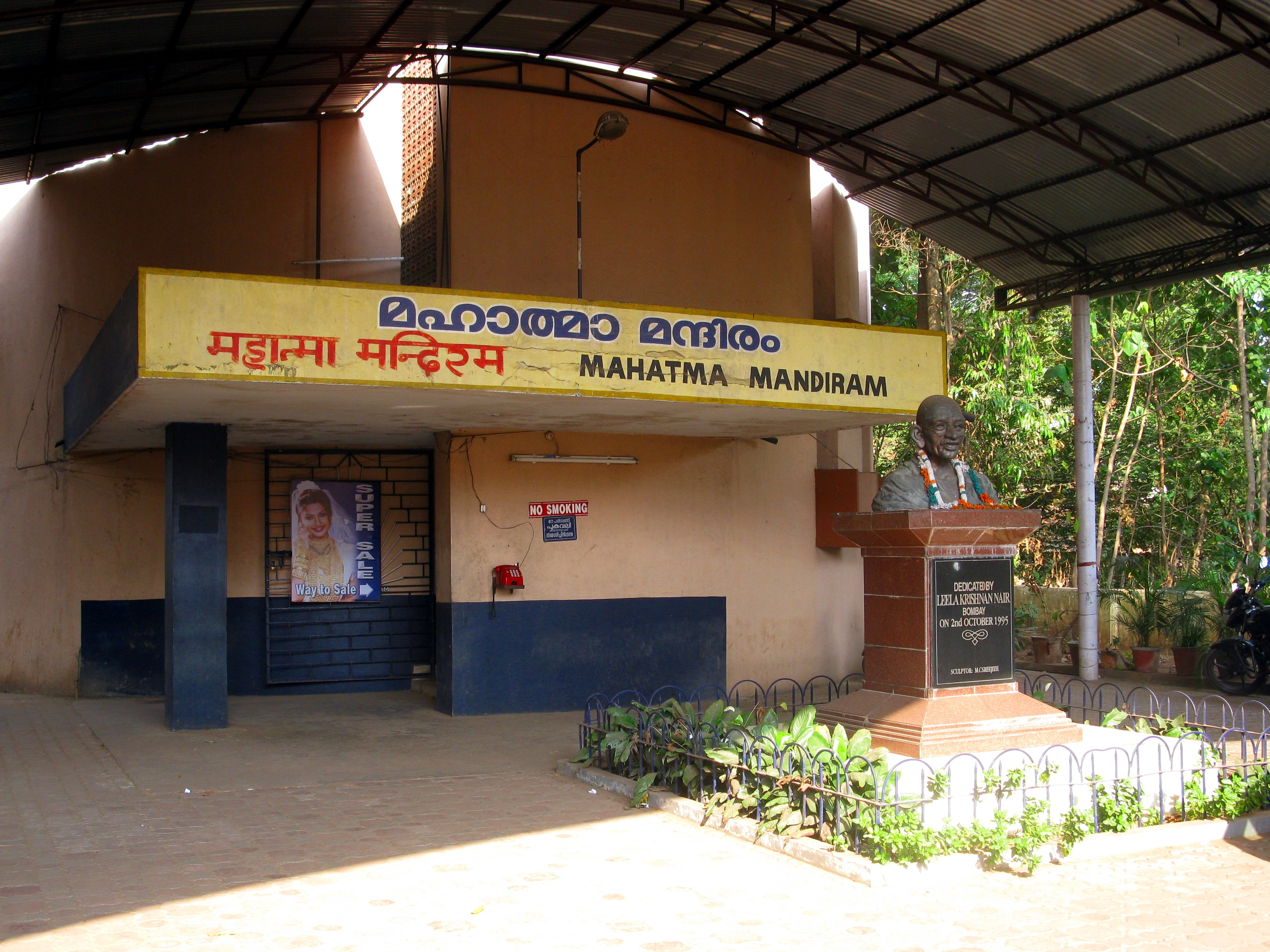 Mahatma Mandiram, Kannur